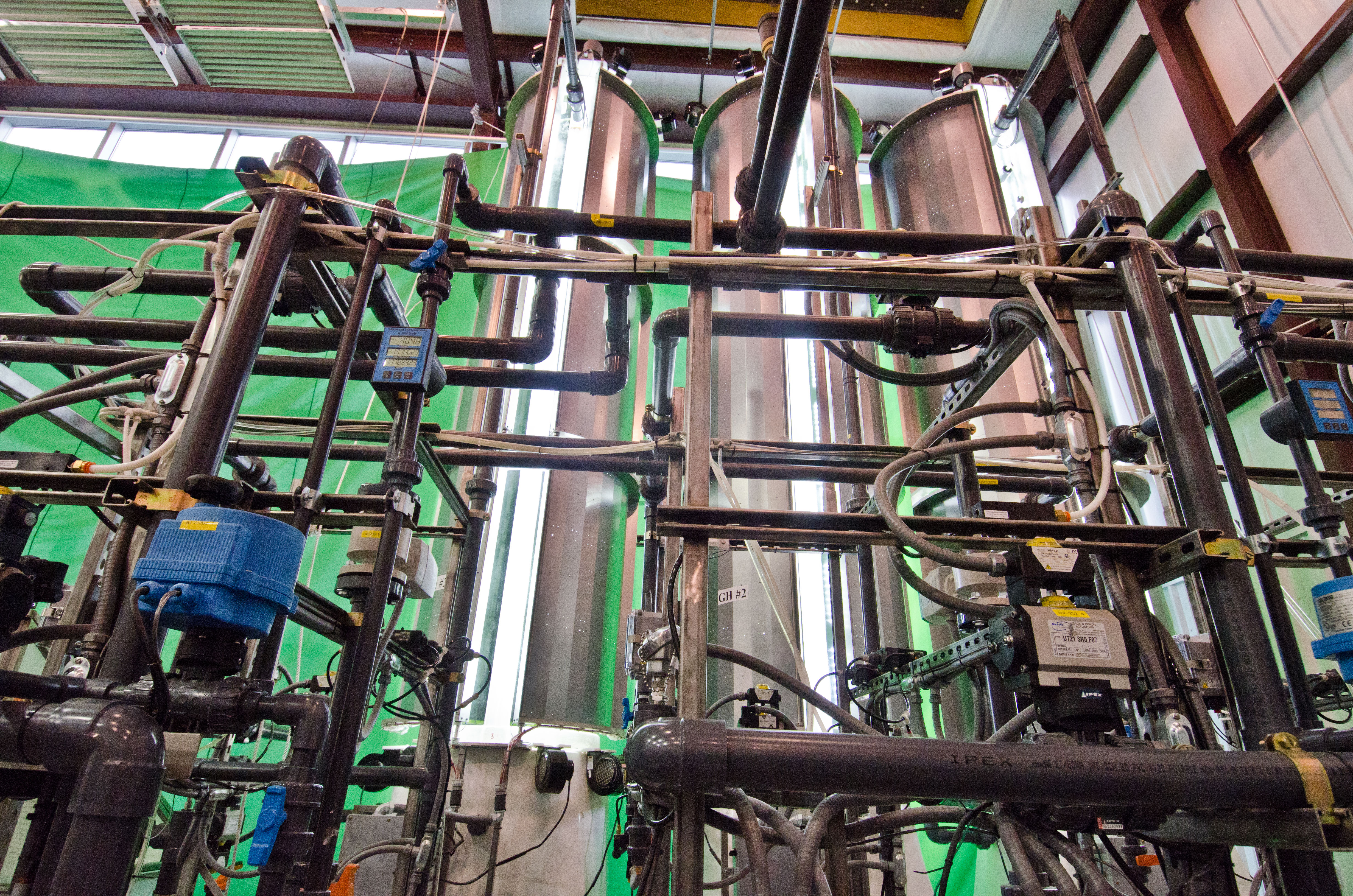 Phase II of the BioProcess Algae facility at Green Plains Renewable Energy (GPRE), Inc. on Friday, April 15, 2011 in Shenandoah, IA. Phase II is key component in the commercial scale photo bioreactors/harvesters. The operation is co-located within GPRE’s ethanol factory where BioProcess Algae technology is used to treat waste products; carbon dioxide, recycled heat and water to mass-produce algae. Algae from this facility are used for animal feeds, pharmaceutical and beauty products. USDA photo by Lance Cheung.